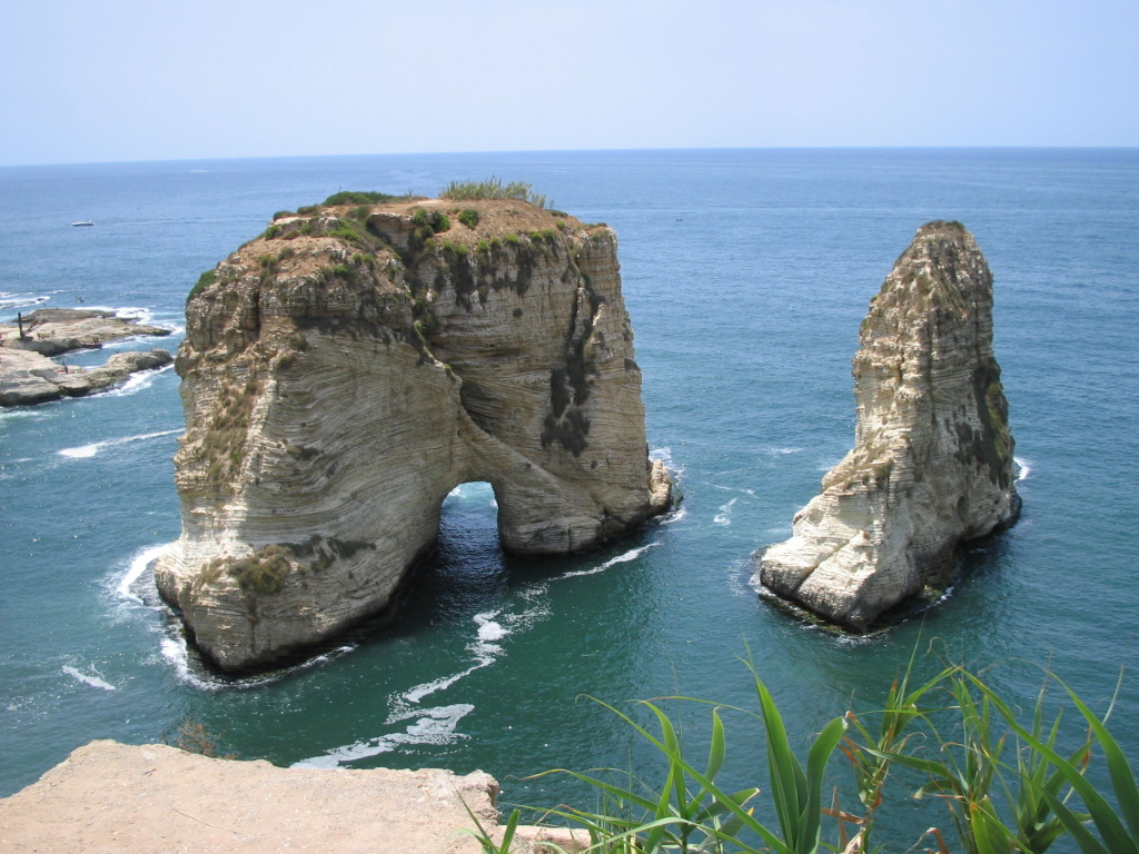 Beirut Raoche Rock